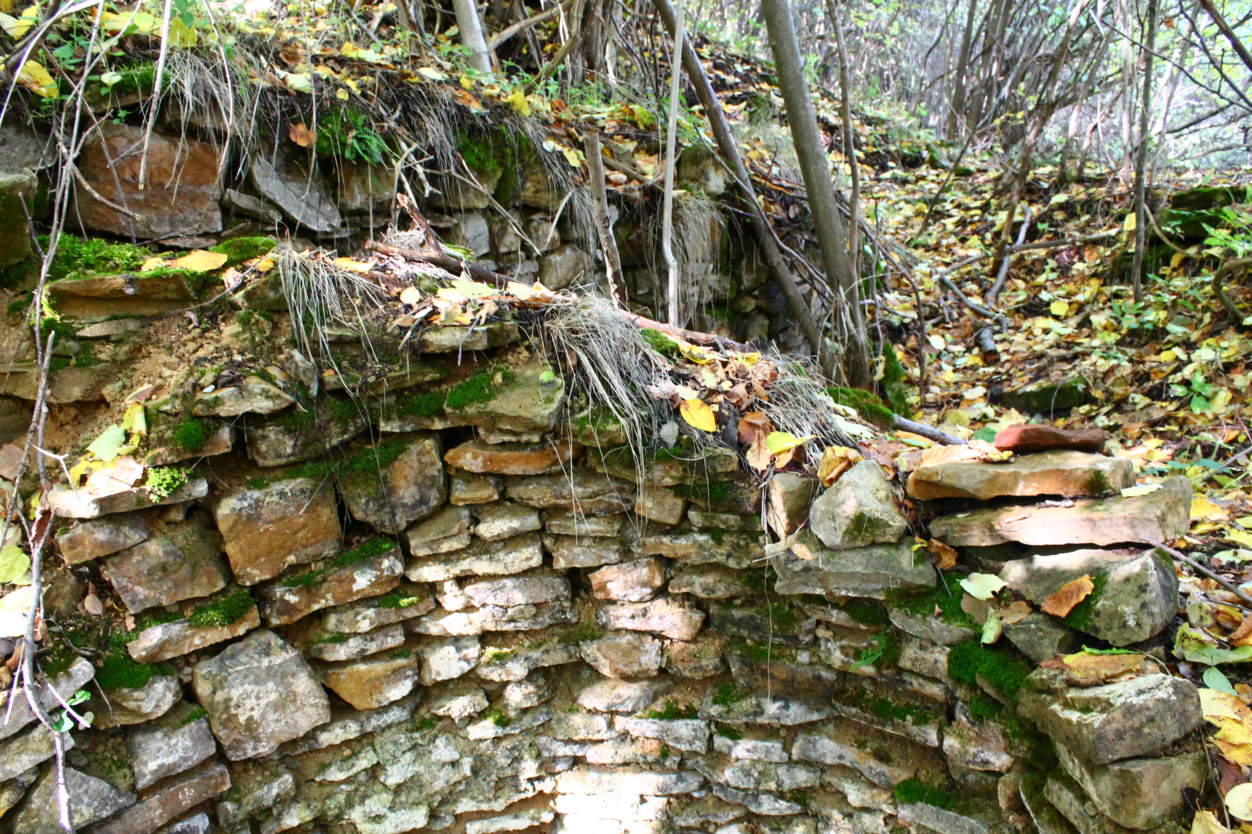 Ruins_Roman_Bath_Garlo_Village_Pernik_District_Bulgaria_1